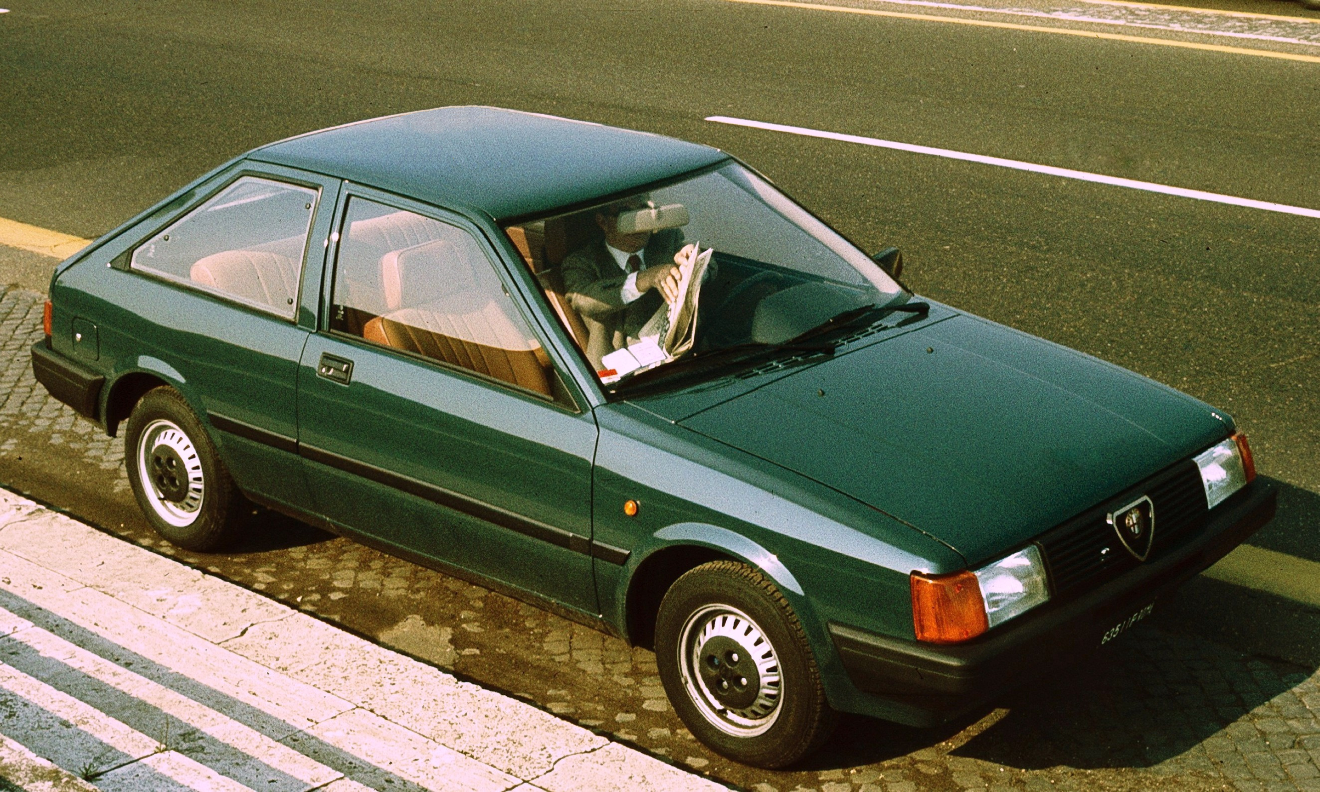 Alfa Romeo Arna photographed at a time when people often read newspapers in cars while waiting for the next appointment